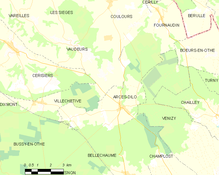 Map of French municipality Arces-Dilo